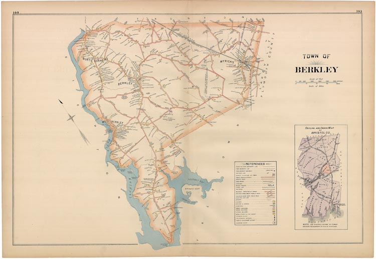 Source: Downloaded from